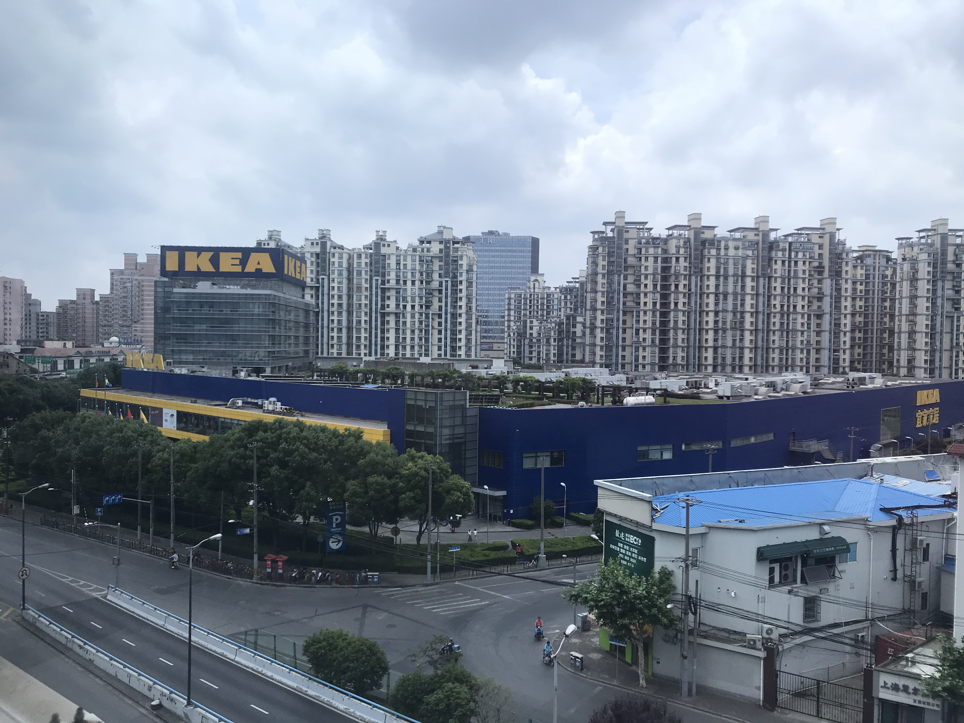 201806 IKEA Shanghai Xuhui Store